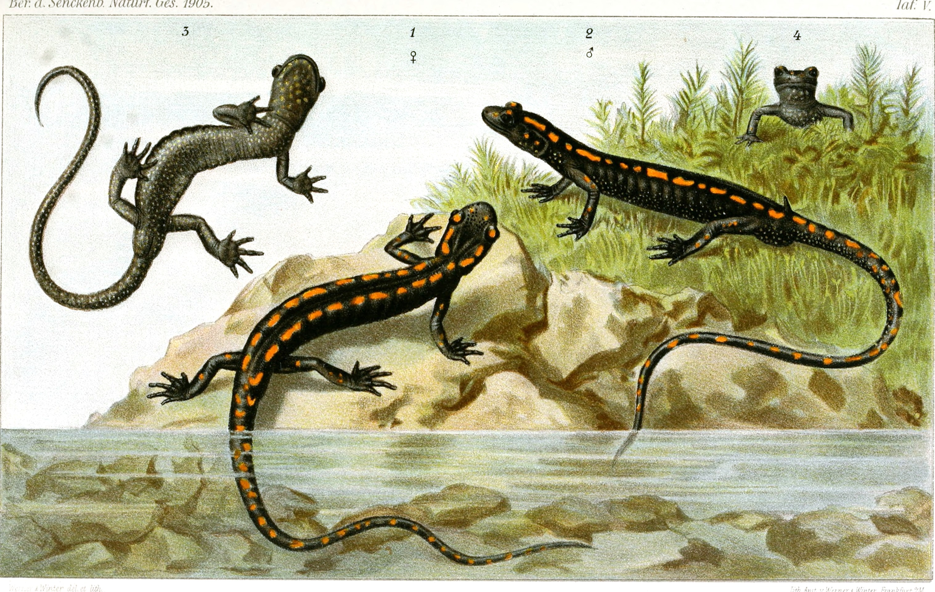 Title: Bericht der Senckenbergischen Naturforschenden Gesellschaft in Frankfurt am Main Year: 1897-1921. (1890s) Authors: Senckenbergische Naturforschende Gesellschaft Subjects: Natural history Publisher: Frankfurt a. M. : Die Gesellschaft Text Appearing Before Image: ' Text Appearing After Image: '